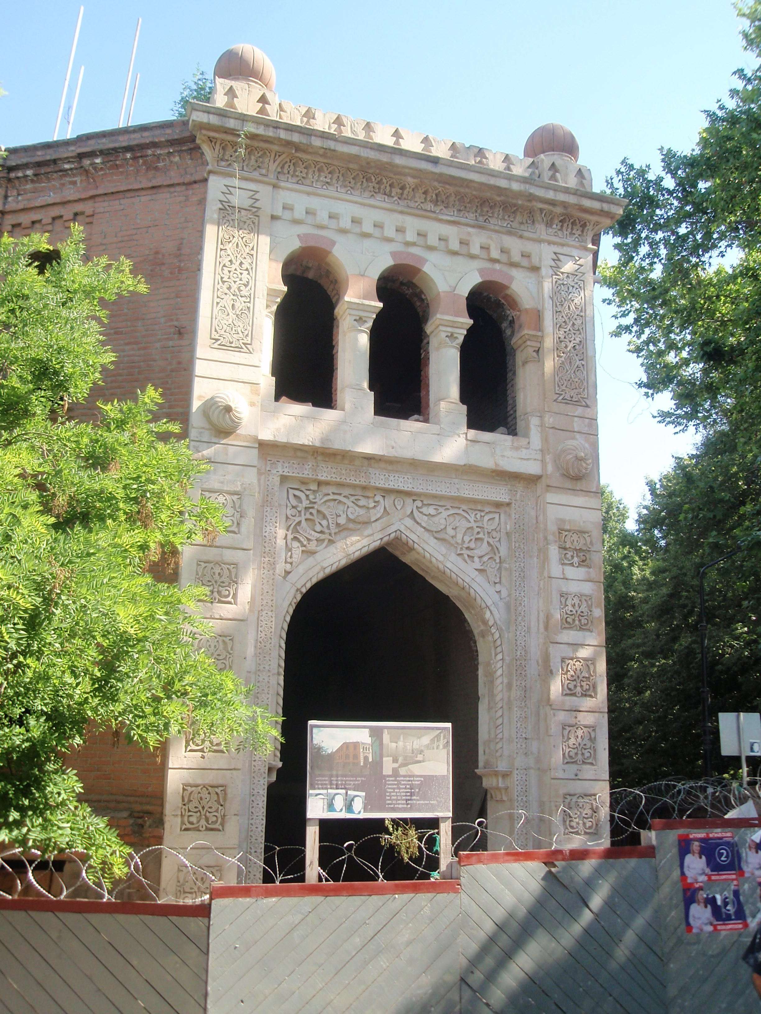 Caravansaray, Tbilisi